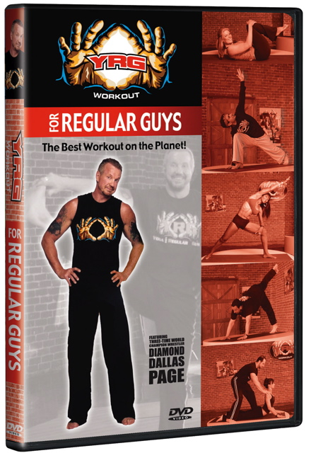 A copy of the Yoga for Regular Guys DVD by Diamond Dallas Page.